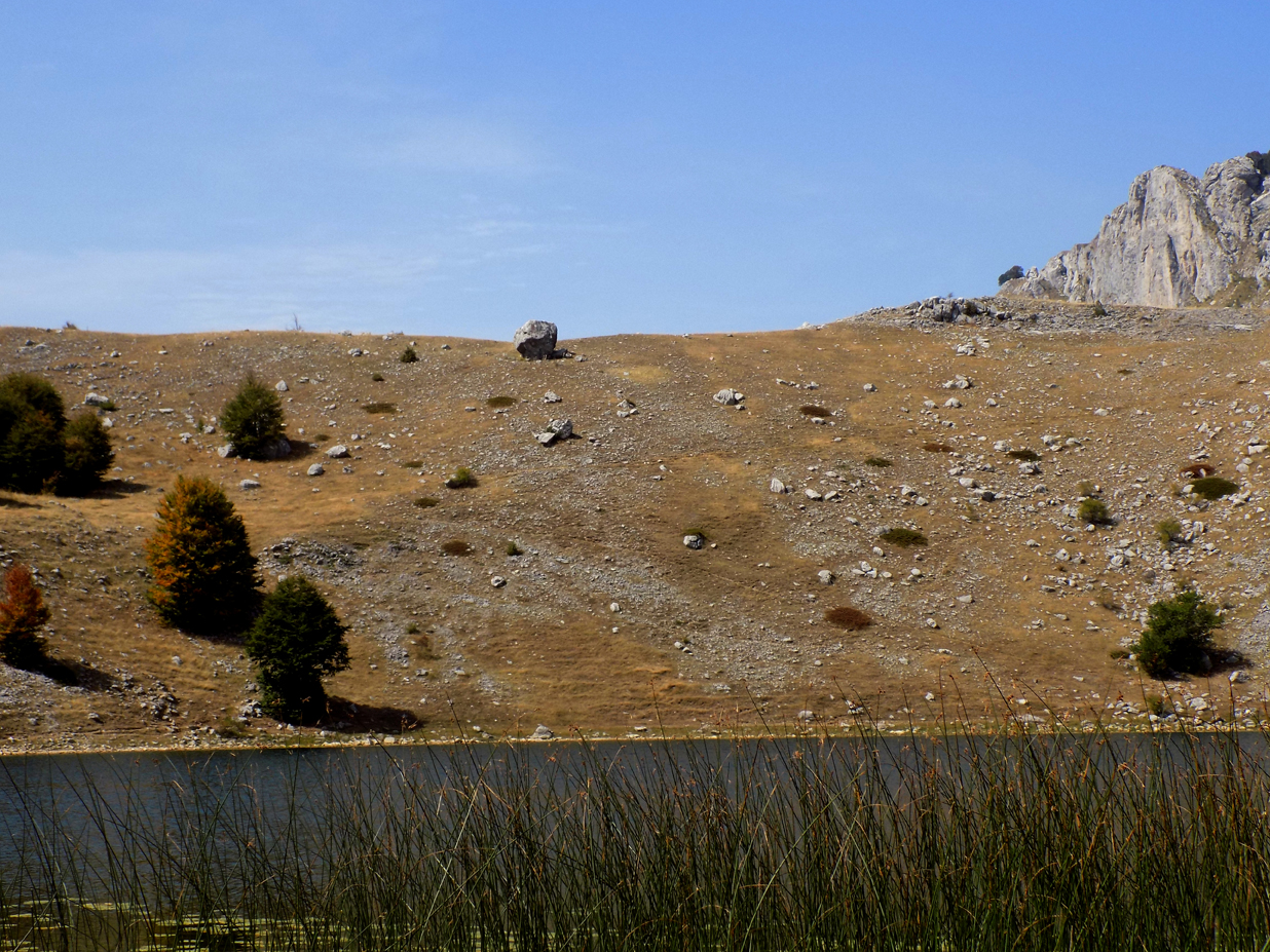 Bukumirsko lake, Montenegro. Shore, with a stone from legend